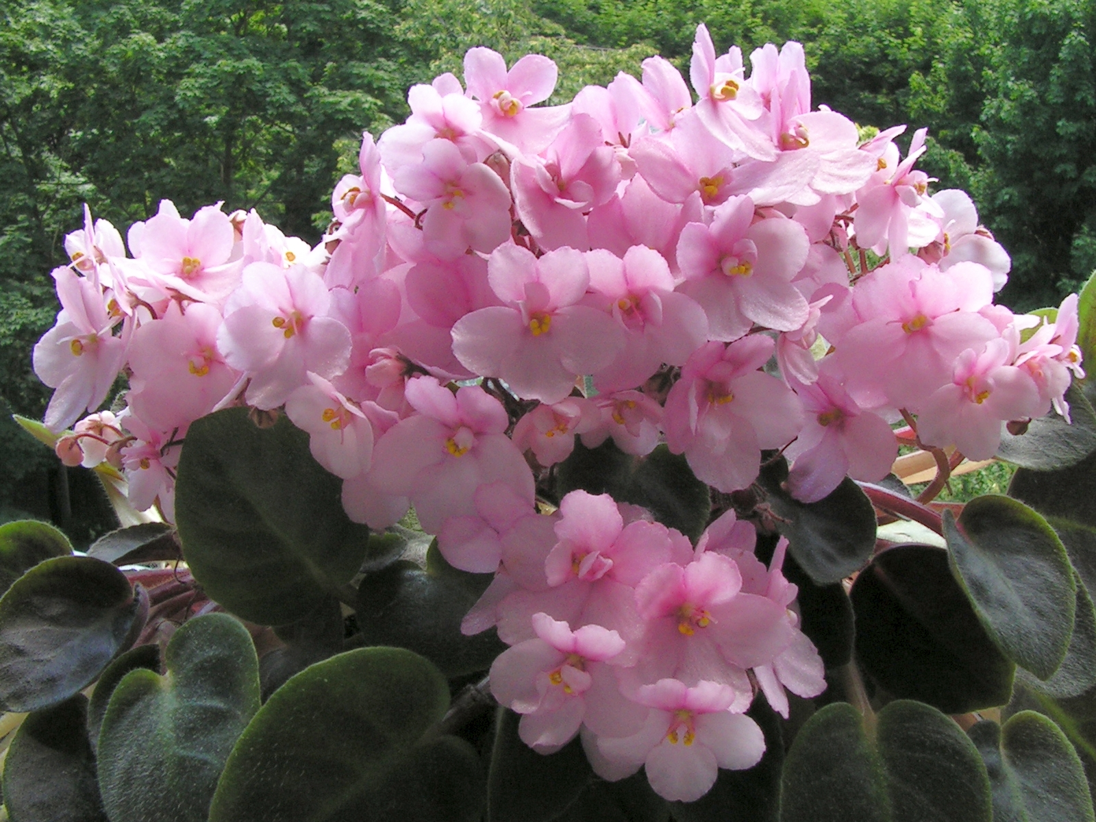 The flowers of the hybrid saintpaulia